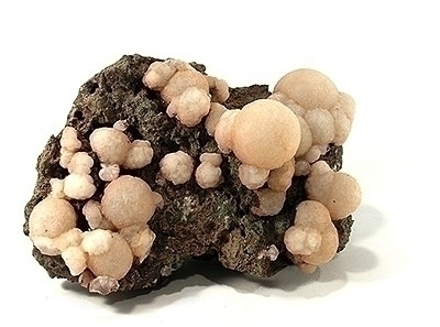 Thomsonite-Ca Locality: Aurangabad District, Maharashtra, India (Locality at ) 15.7 x 10.5 x 6.2 cm